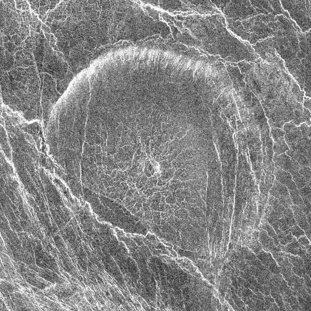 Volcano Aegina Farrum on Venus (a map). Radar image by Magellan, made in Left-Look mode. Size of the image is 80×80 km, north is up, contrast is increased.